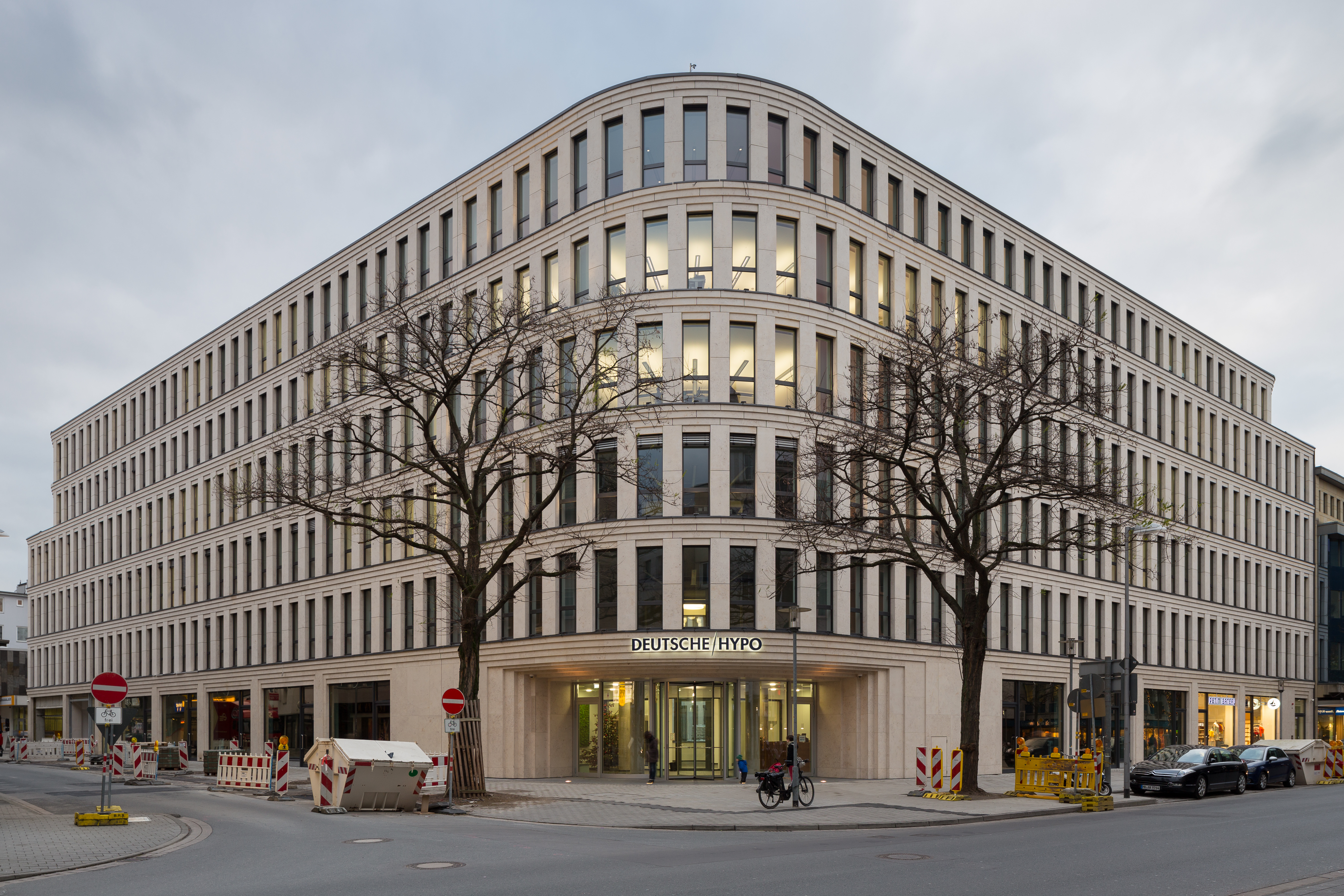 Office building of Deutsche Hypothekenbank located at Osterstrasse and Roeselerstrasse in Mitte district of Hannover, Germany.